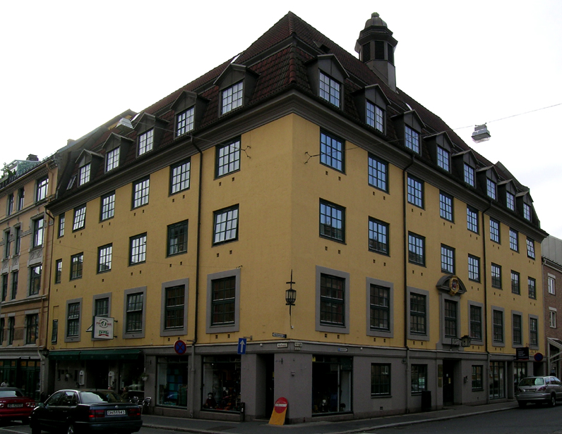 Markveien 57, Oslo, Norway. Built 1923 as a lodging house for men. Now offices for the city. Architects: Christian Morgenstierne & Arne Eide